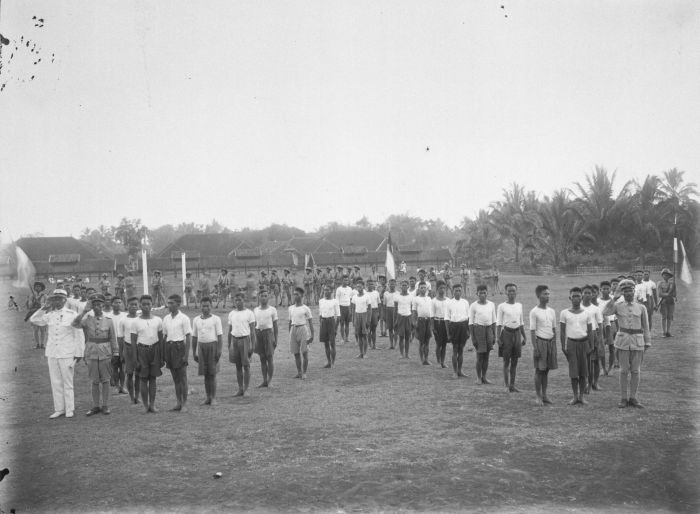 Police academy students on a sports day